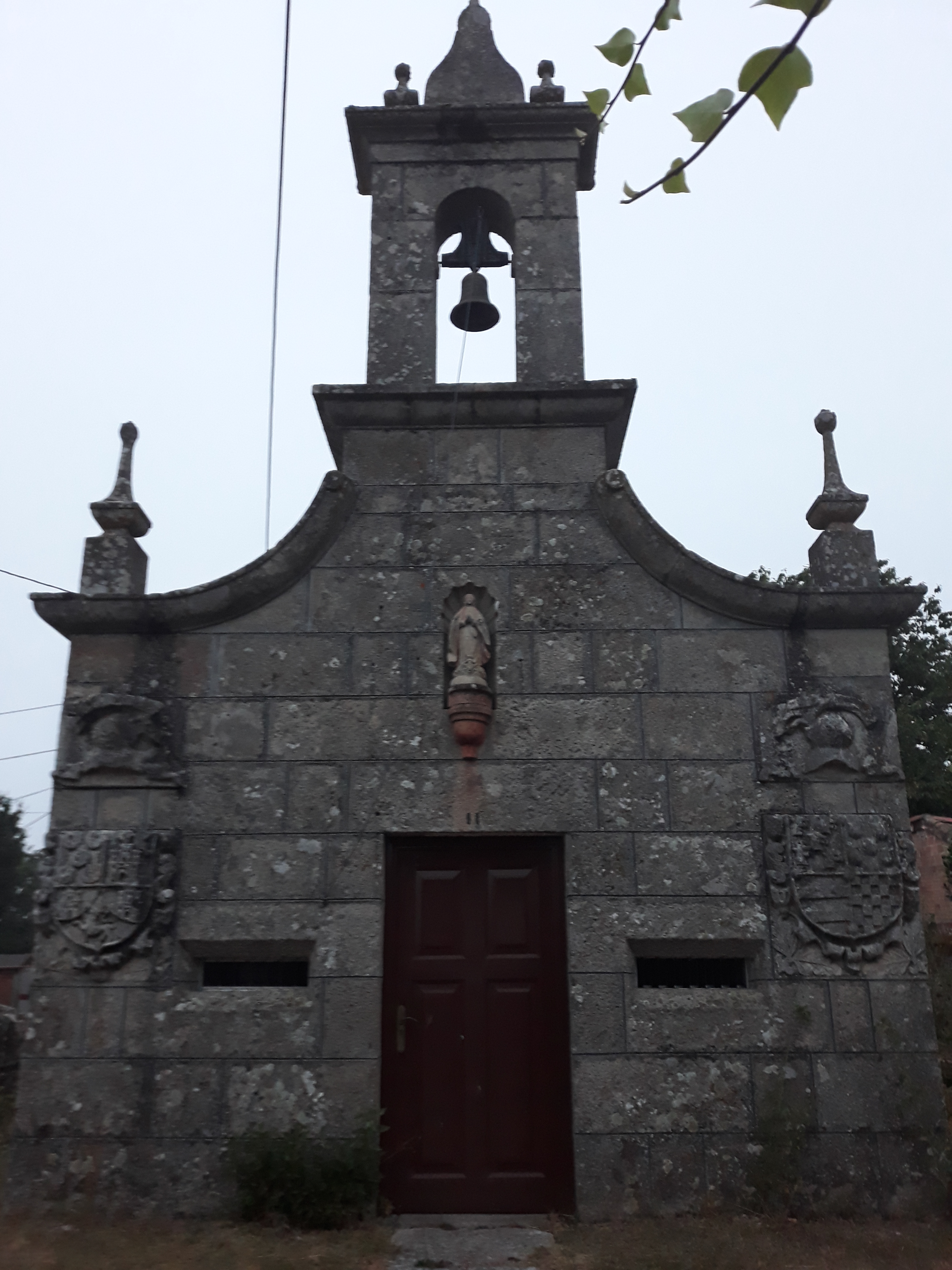 Church in the hamlet of A Pousa, Parroquia de Armariz, Galicia.